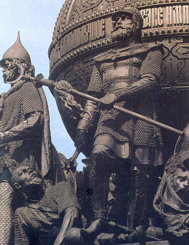 Dmitriy Donskoi and the defeated warrior of the Golden Horde.